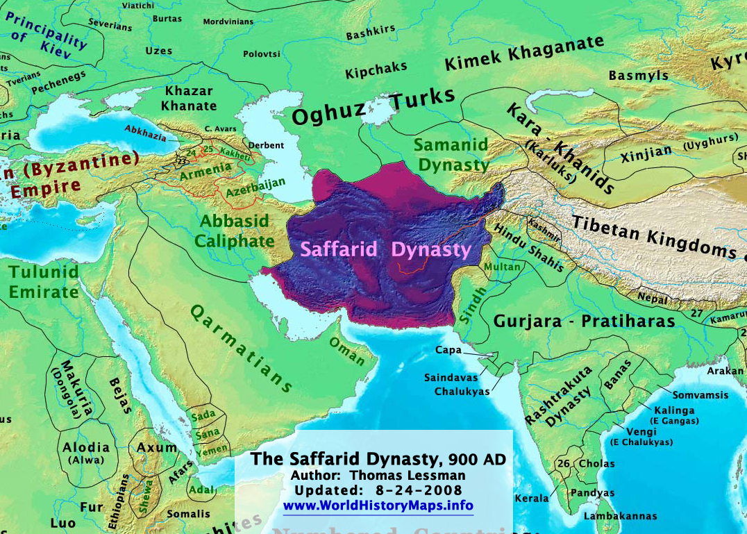 Map of the Saffarid Dynasty (861 CE-1003 CE) in 900 CE.